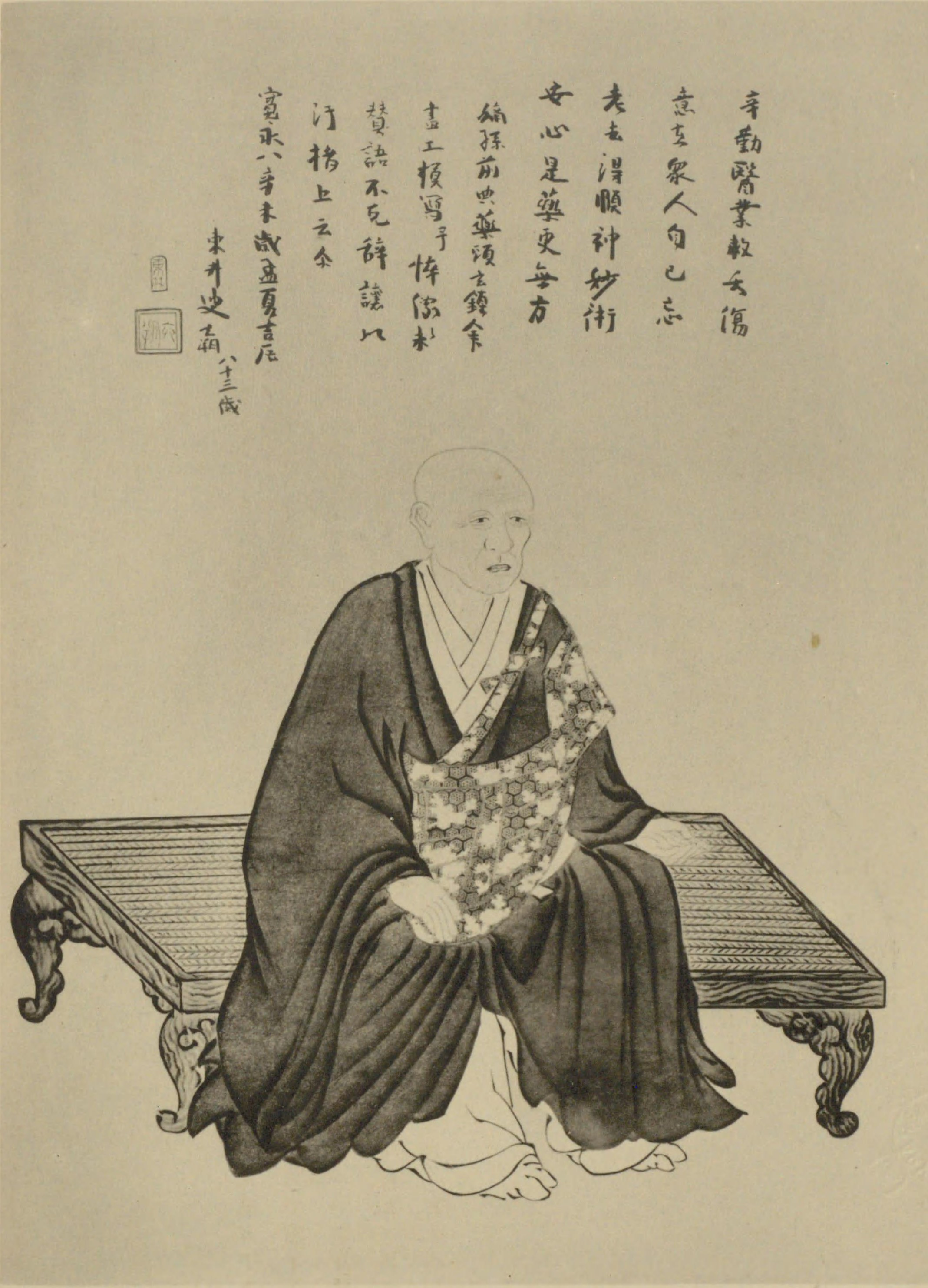 Portrait of Manase Gensaku